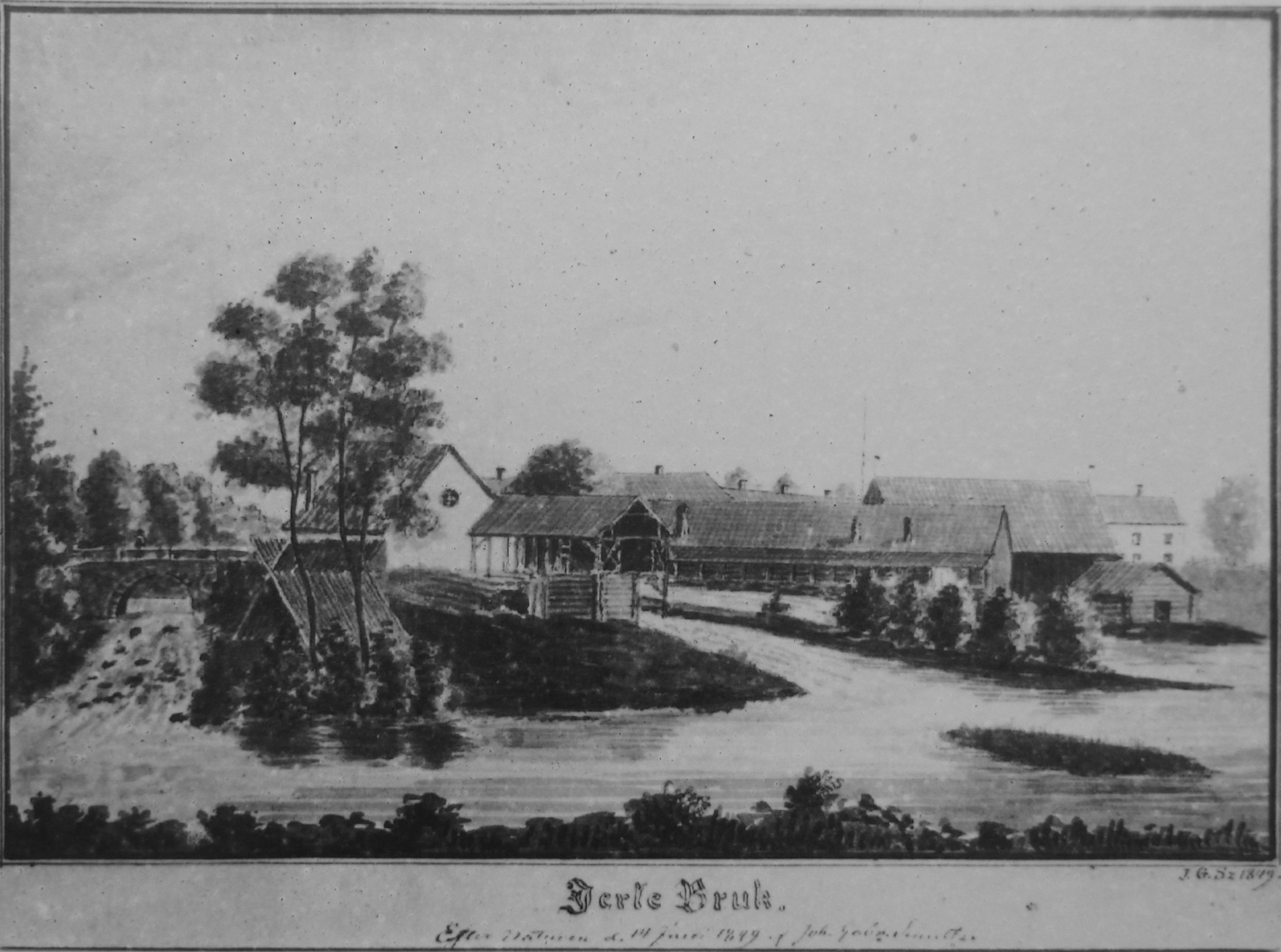 A drawing of Järle bruk 1849